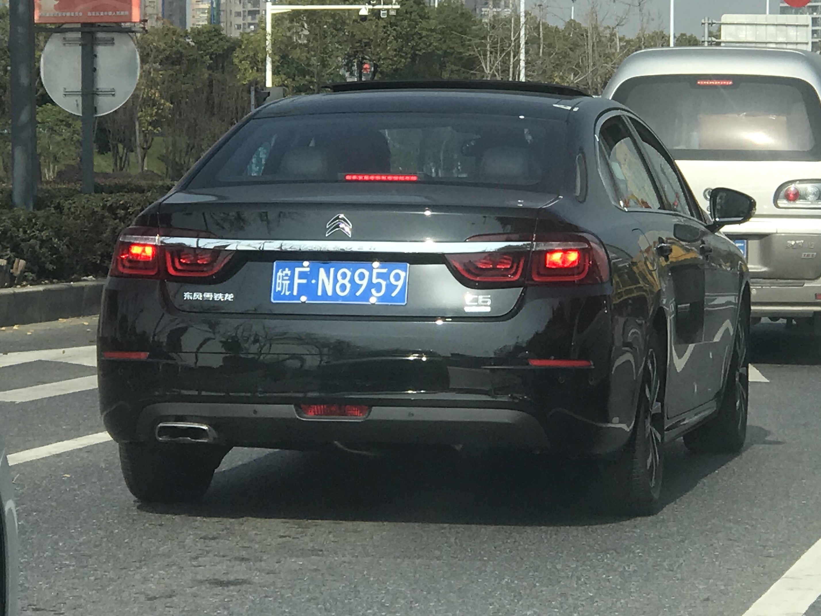 Citroen C6 China